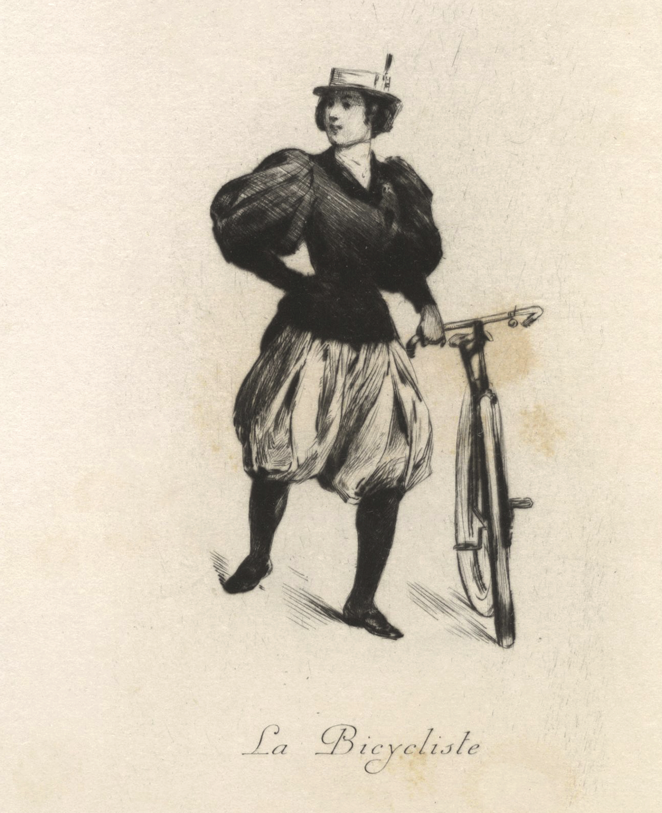 This plate, taken from La Parisienne peinte par elle-même, appears in the section on Parisian gallantry, and features the female cyclist. Semi-satire on the new-fangled "bicycle suit" that women were starting to wear in order to ride the newly-invented safety bicycle.